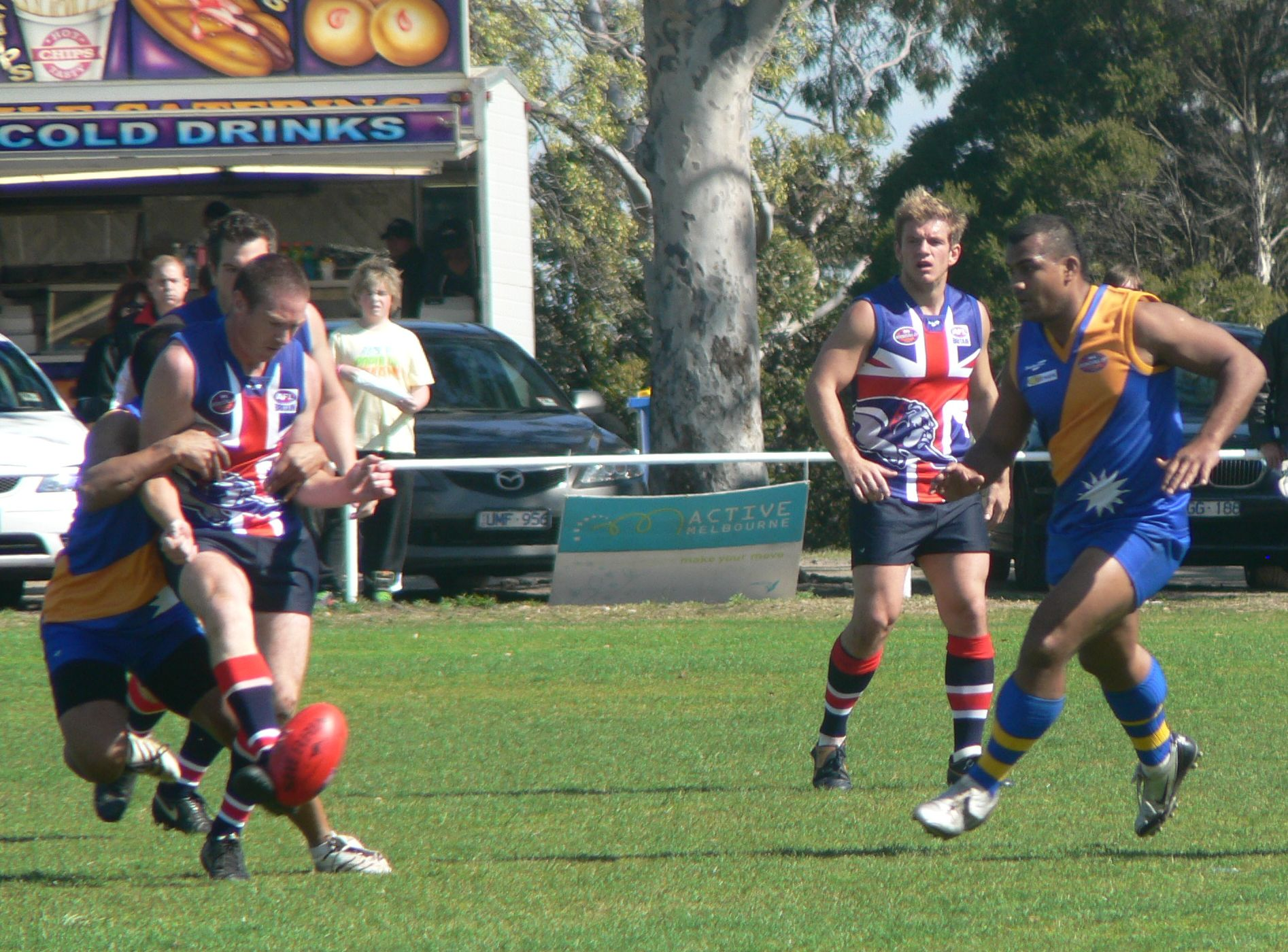 British Bulldog Aussie Rules player gets a kick away despite being tackled by Naruan opponent